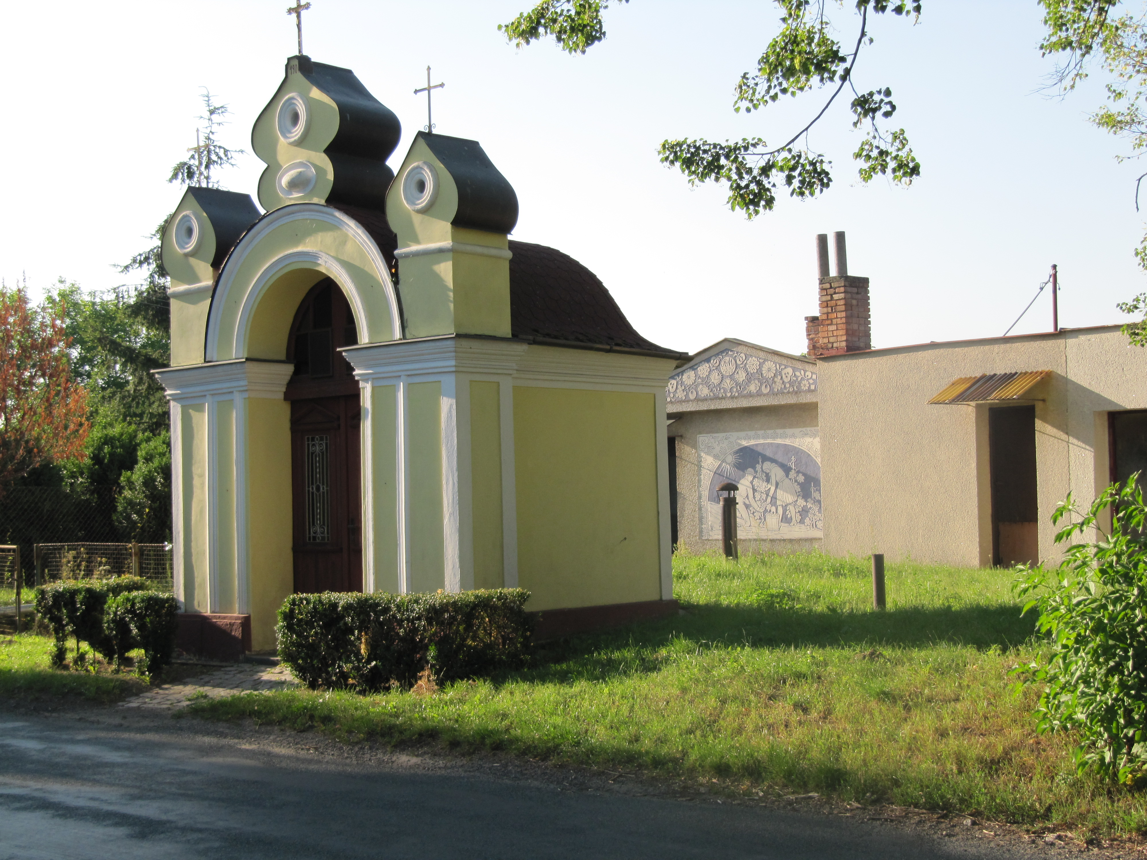 Vacenovice in Hodonín District, Czech Republic. Chapel of Our Lady of Sorrows in the front of the church. This photograph was taken within the scope of the third year of the 'Czech Municipalities Photographs' grant.